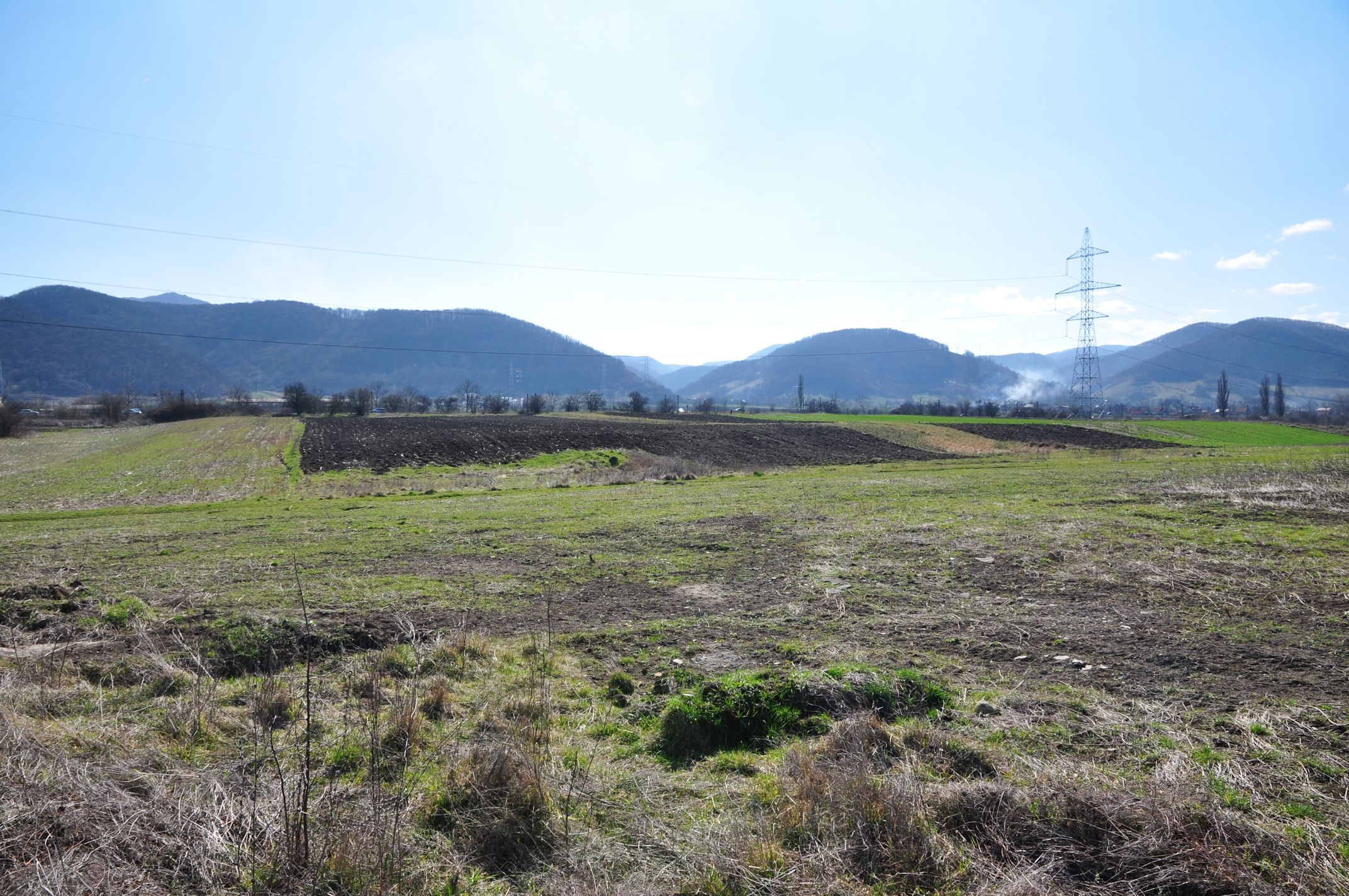 Castra Micia - present day Vetel, Romania